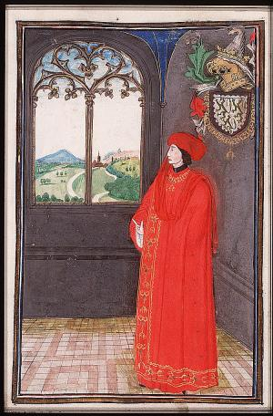 1 = Statuts, Ordonnances et Armorial de l'Ordre de la Toison d'Or (Statutes, Ordonnances and armorial of the Order of the Golden Fleece) Place of origin, date: Southern Netherlands; 1473. Added sections: Southern Netherlands; 1478 or shortly after and 1491 or shortly after Material: Vellum, ff. 86, 249x187 (167x106) mm, 23 lines, littera cursiva (lettre bourguignonne). French. Binding: 18th-century brown leather Decoration: 1 full-page miniature (170x115 mm) with border decoration; 92 miniatures (185/155x120/100 mm); 1 historiated initial (80x90 mm) with border decoration; decorated initials with border decoration (ff., Added section: miniatures ; 4 drawings for miniatures (not finished) Provenance: Presented in 1473 by Gilles Gobet, King of Arms of the Order of the Golden Fleece, to Charles the Bold, Duke of Burgundy and the other Knights during the Chapter of the Order held at Valenciennes; Treasure of the Golden Fleece, Brussls; taken away by the Treasurer C.-F. Humyn (d. 1735) or his daughter C.Ch. de Corte; by legacy to her daughter M.-L. de Corte, wife of Ph.-E. de Poederlé; purchased in 1781 at the Poederlé sale by G.-J- Gérard of Brussels; acquired in 1832 as part of the Gérard collection (no. A 27)